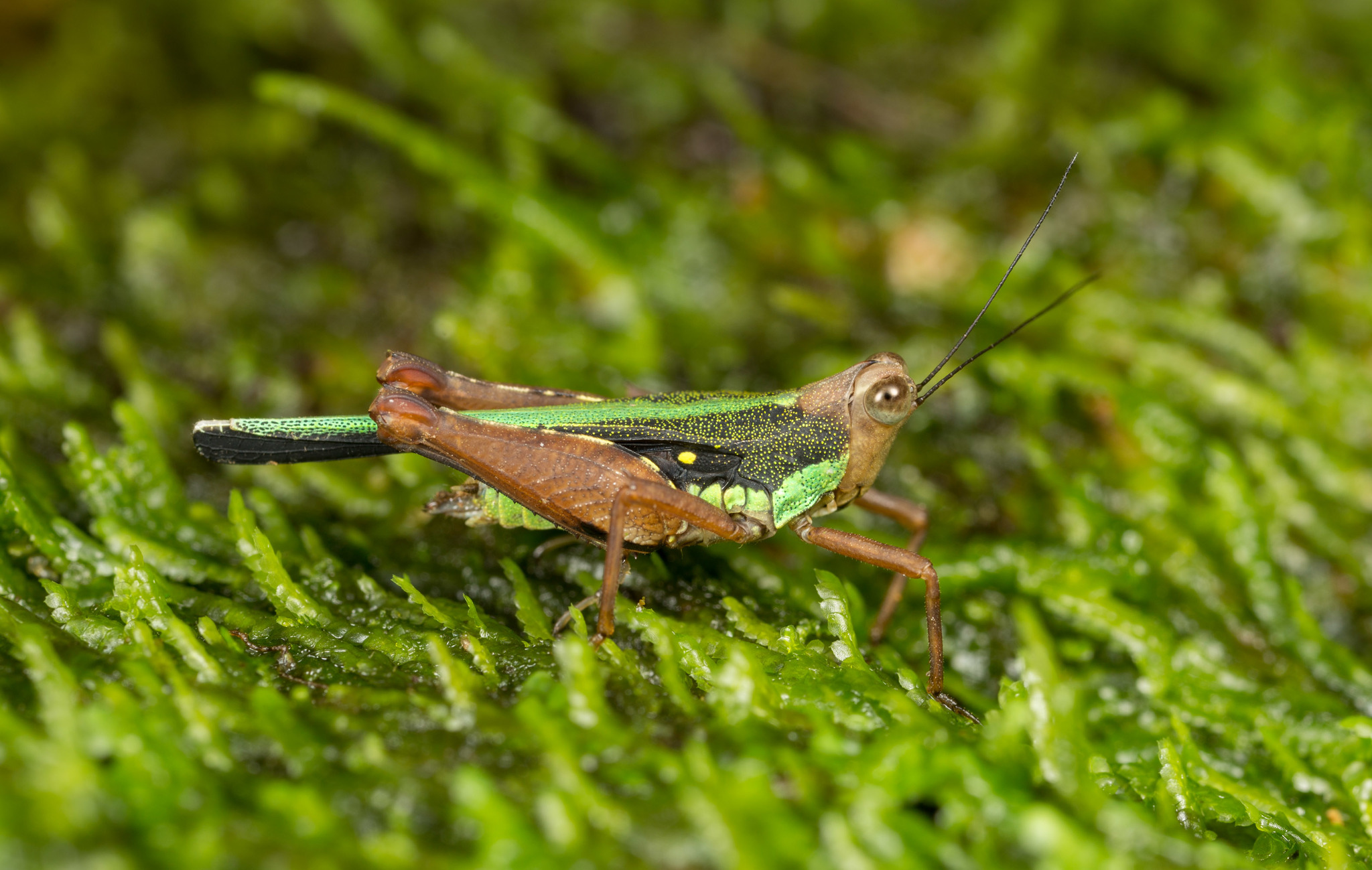 Scaria hamata. Species of insect.